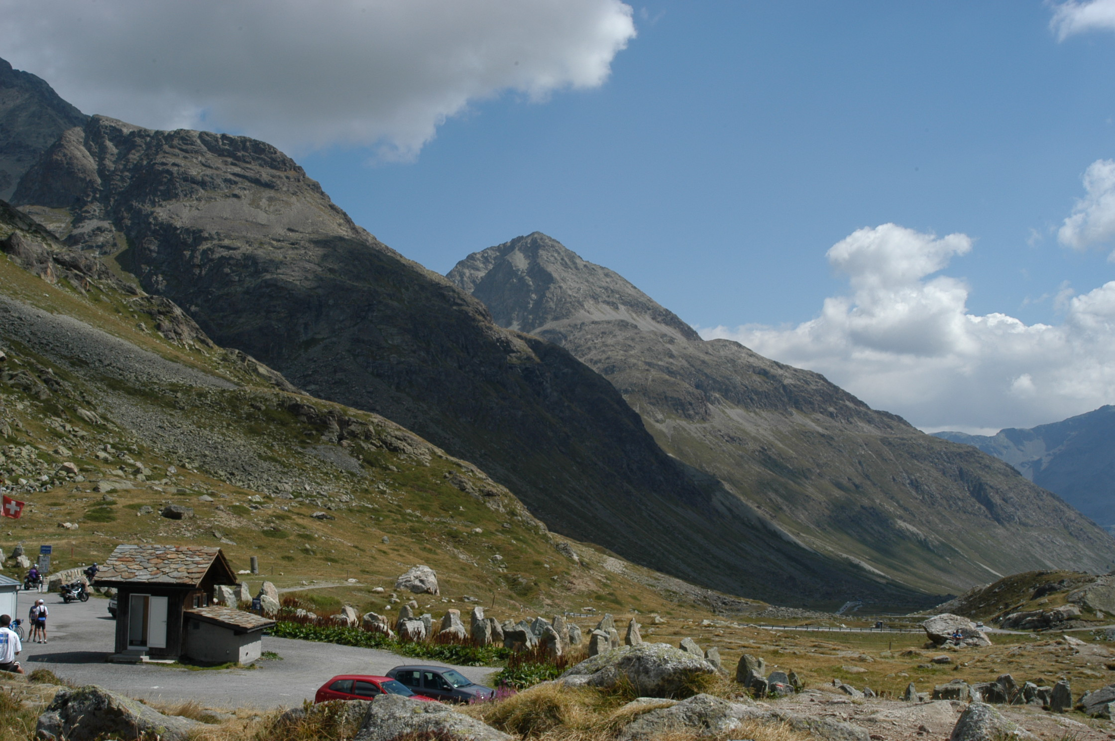 View on the top of the Julier Pass in Switzerland. The view is towards the Engadin valley. Picture taken by uploader on 22 August 2003.